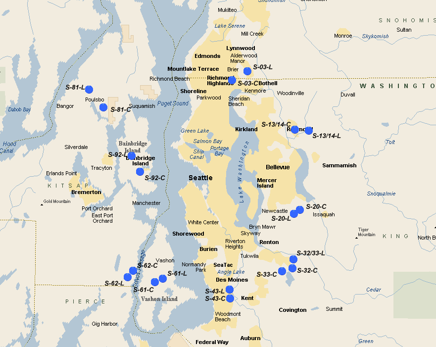 Seattle Defense Area Nike Missile Sites